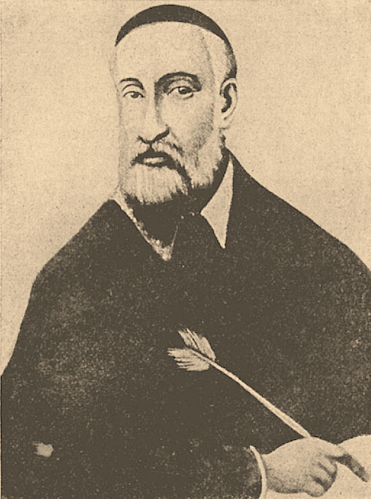 Illustration from Brockhaus and Efron Jewish Encyclopedia (1906—1913). Menahem Azariah da Fano